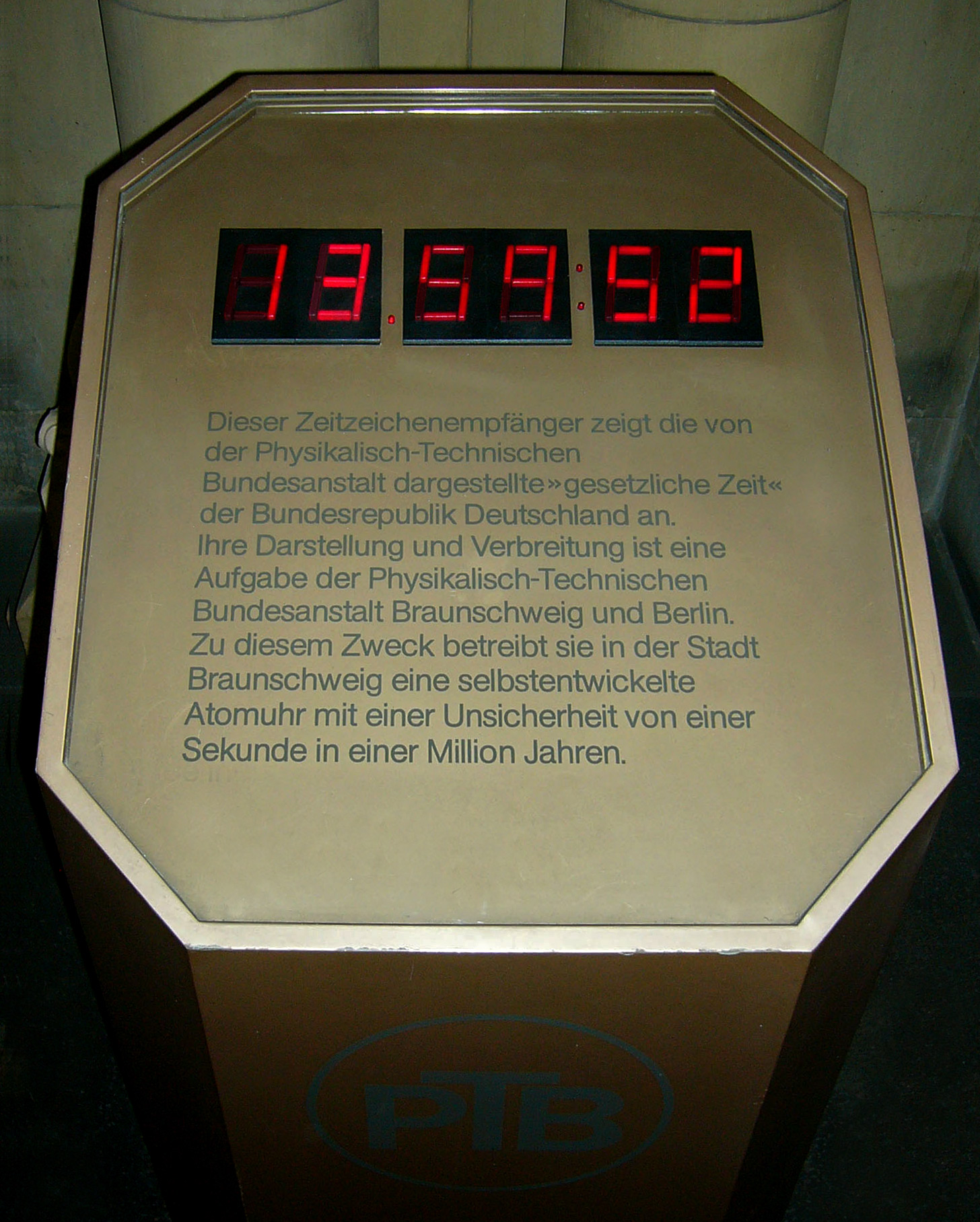 Atomic clock of the Physikalisch-Technische Bundesanstalt in the entrance hall of the city hall in Braunschweig.